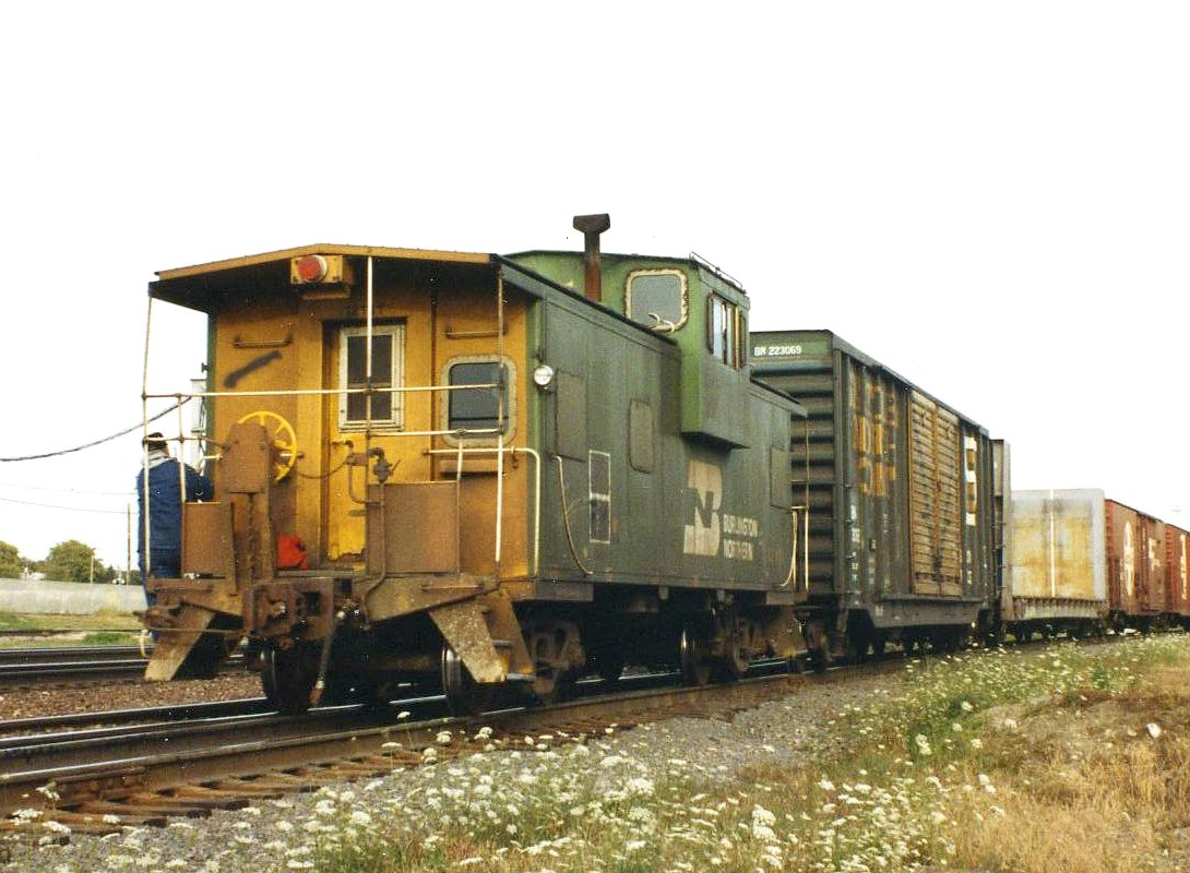 A caboose at the end of a Burlington Northern Railroad train entering Eola Yard, Aurora, Illinois, United States, in 1993.